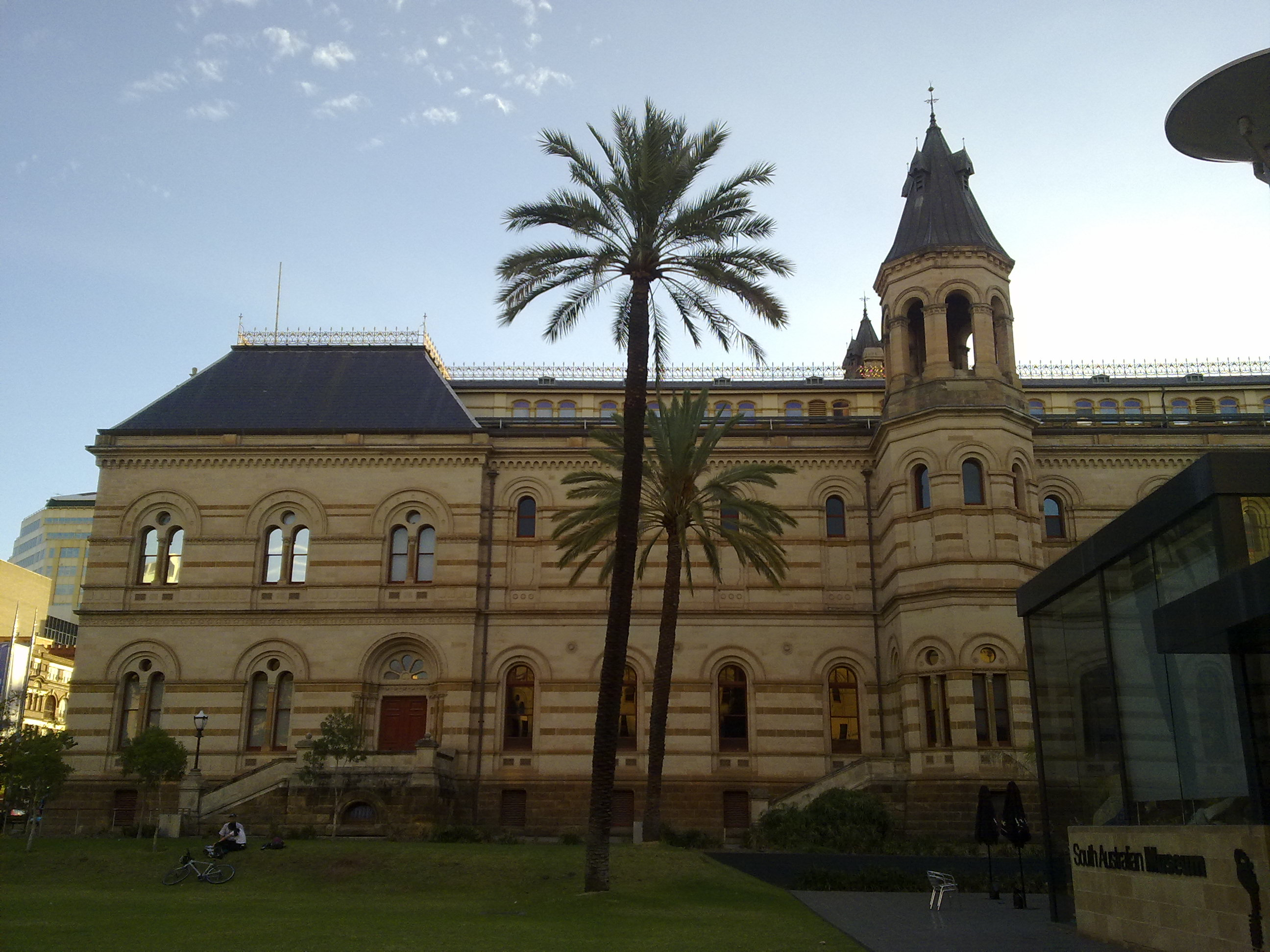 The west wing of the South Australian Museum. - Actually, it's the Mortlock Library, part of the State Library of South Australia. (But, if the museum had a west wing, then that is where it would be.